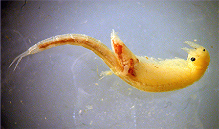 Branchinecta lynchi USFWS photo